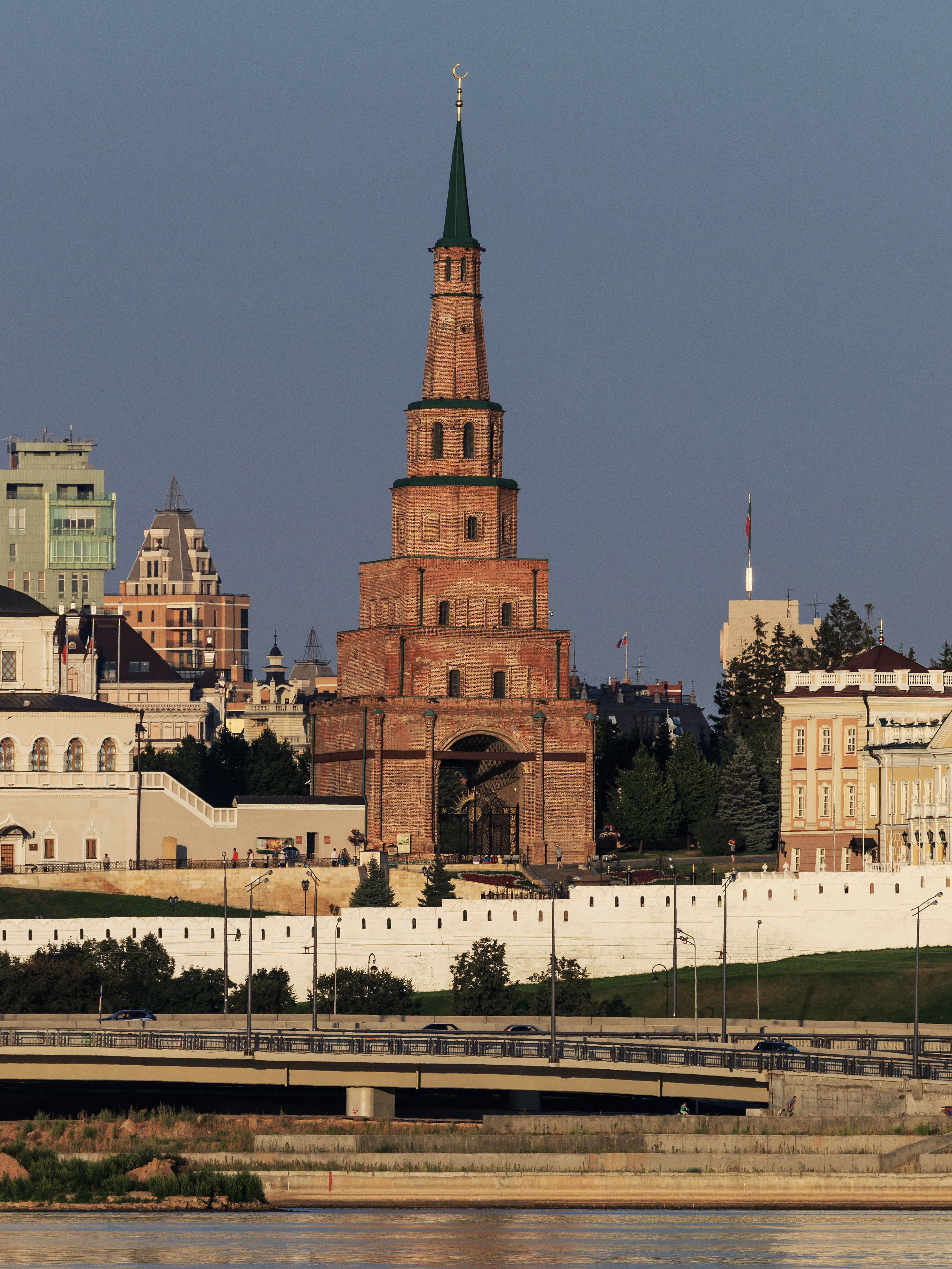 Suyumbike Tower of the Kremlin in Kazan, Russia